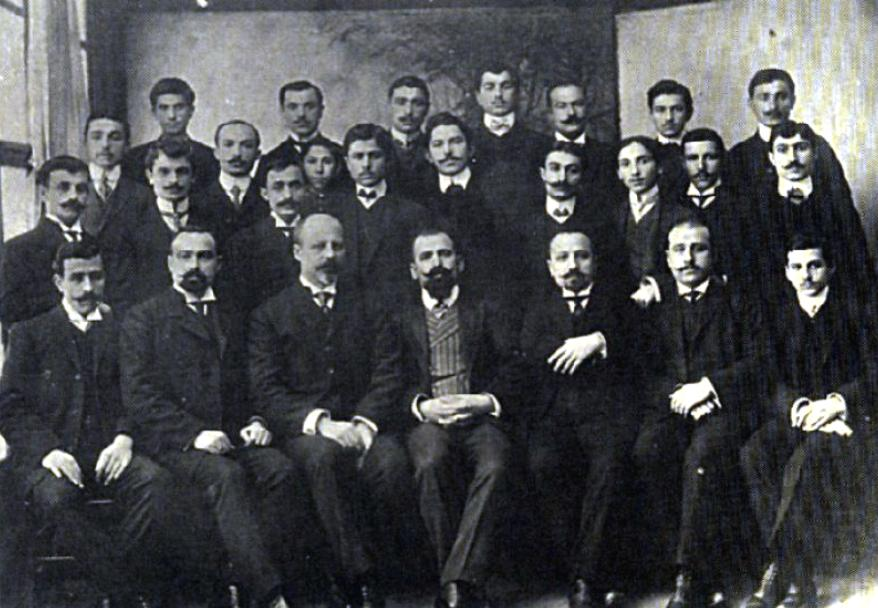 Pontian Greek bank employees - 1915, Pontus (modern Trabzon Province, Turkey).